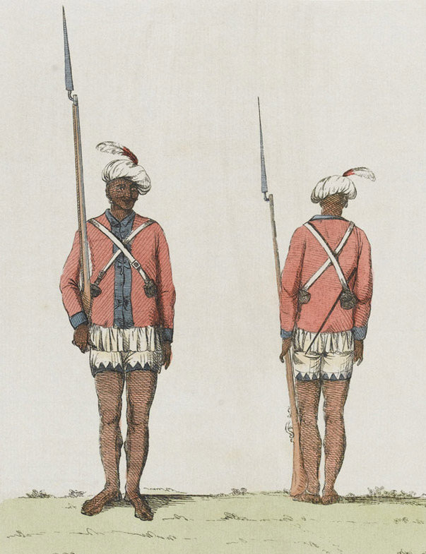 Sepoys of the 3rd Battalion at Bombay, Coloured engraving, published by Matthew Darly, 2 October 1773. The sepoys are dressed in jackets very similar to that worn by British troops, together with a turban and cholnas. The 3rd Battalion of Bombay Sepoys was raised in 1769, and ceased to exist in 1788 when its men were drafted to the 10th and 11th Battalions, which were in turn disbanded in 1785 and 1784 respectively. A new 3rd Battalion of Bombay Sepoys was raised in 1788, the ancestor of the Mahratta Light Infantry of the post-independence Indian Army. National Army Museum Collection, London: NAM Accession Number 1966-04-7-1